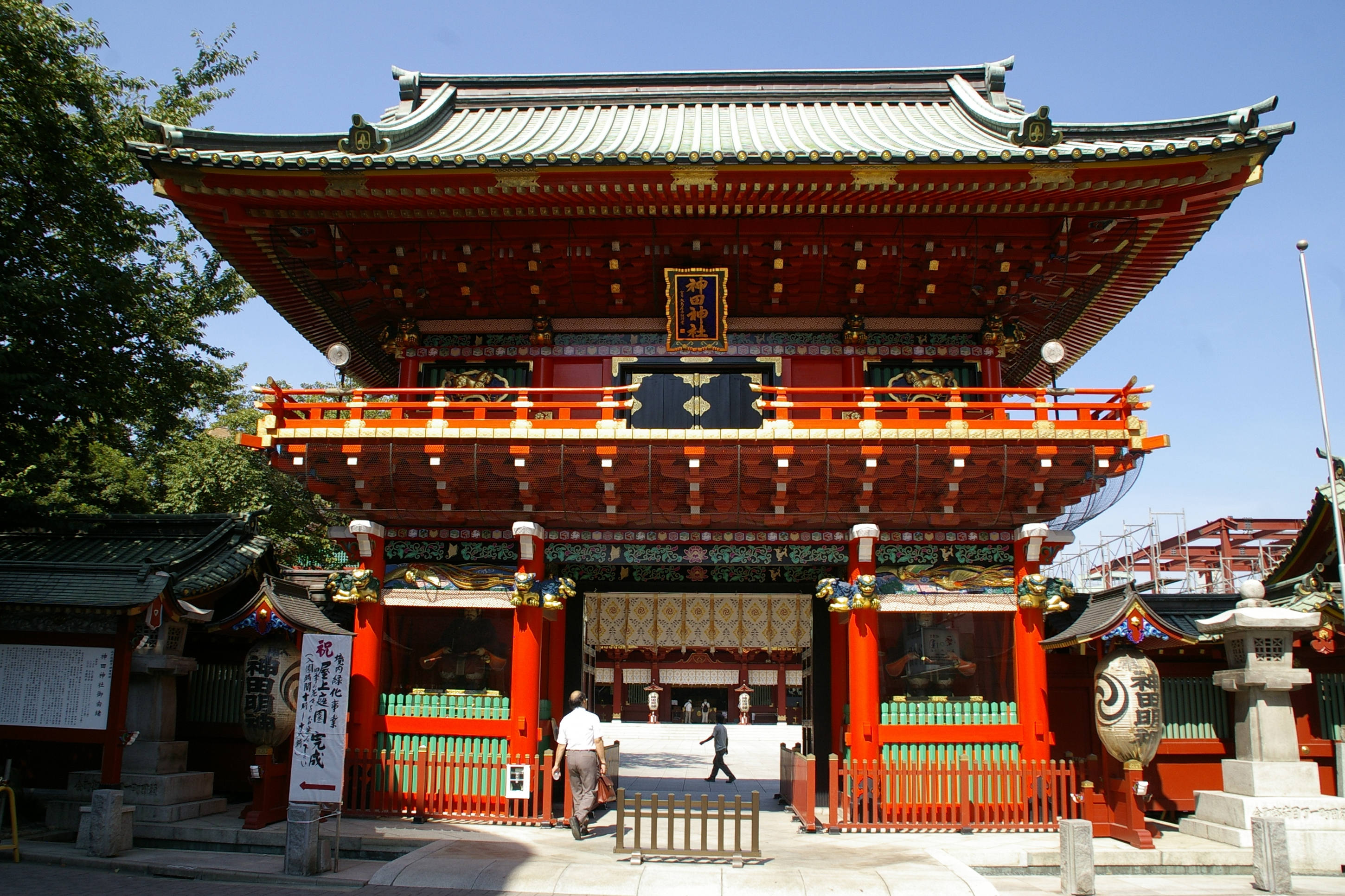 Kanda Myojin - Zuishinmon